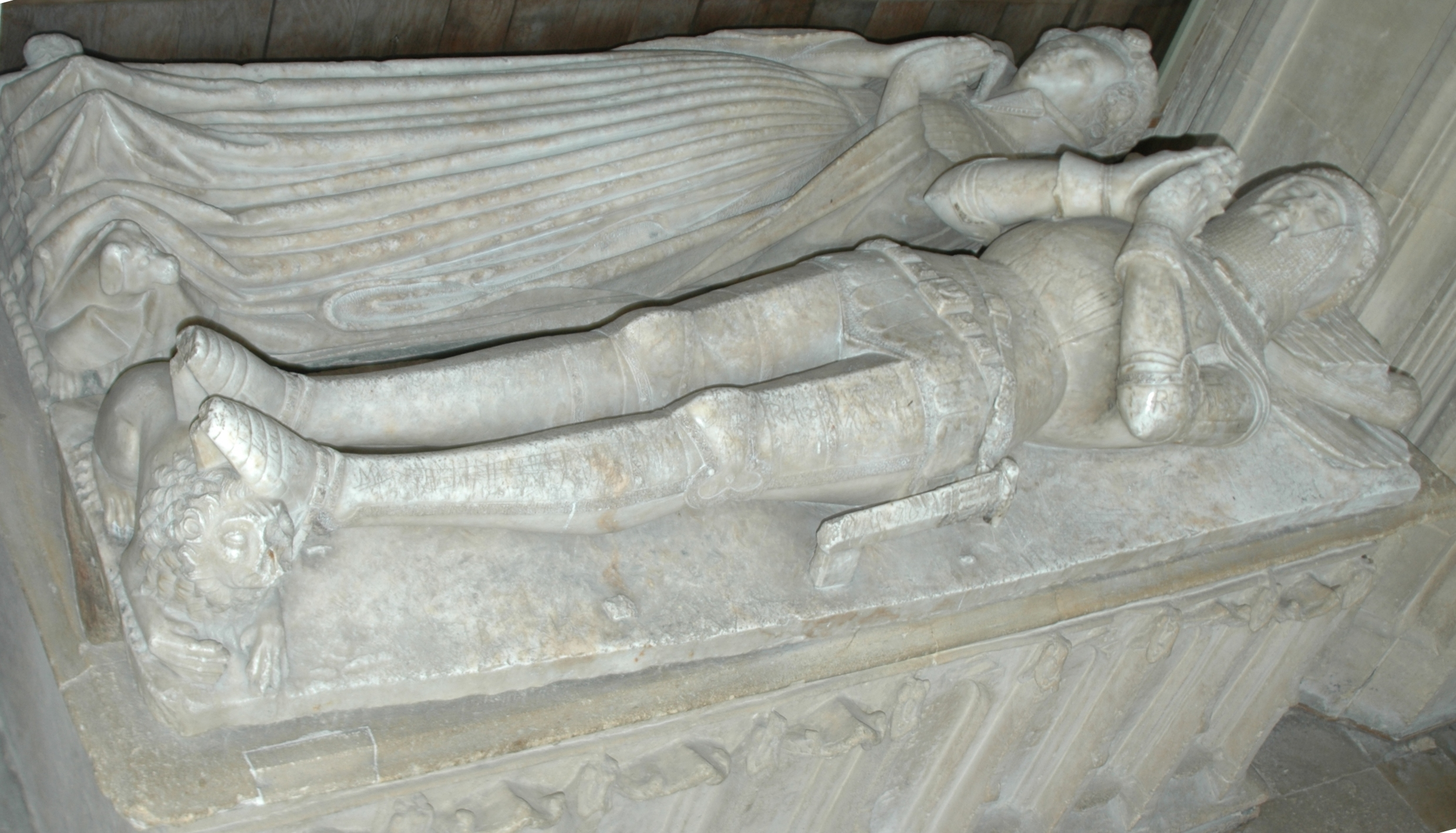 Effigies of Sir William Wilcote (died 1410) and his wife in the Wilcote chantry chapel, St Mary's parish church, North Leigh, West Oxfordshire, England